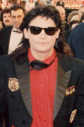 Corey Feldman (wearing Ray-Ban Wayfarer sunglasses) at the 61st Academy Awards 3/29/89